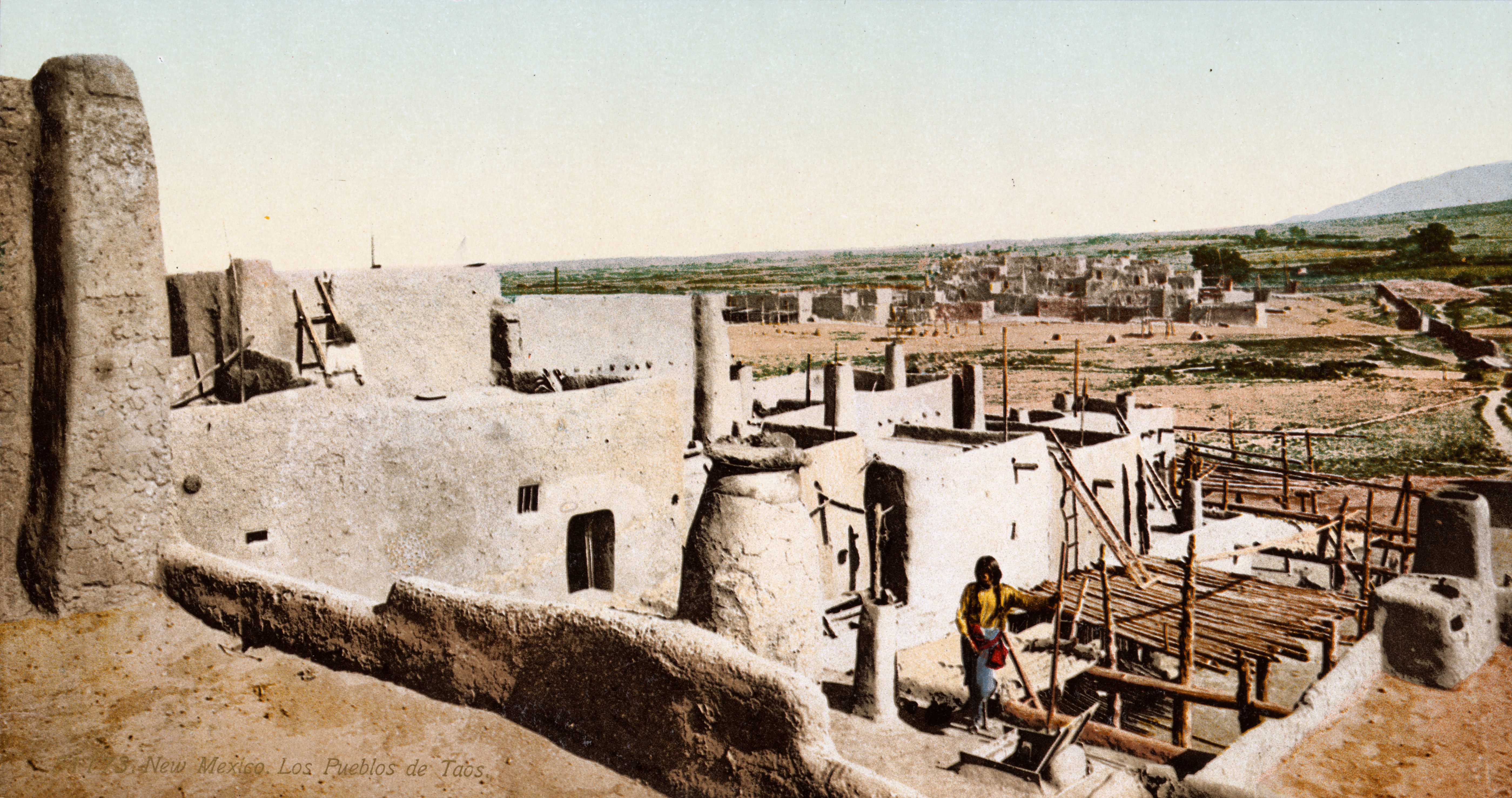 From the Detroit Publishing Co. Collection at the U.S. Library of Congress. More postcards from the United States | More photochrom postcards [PD] This picture is in the public domain.